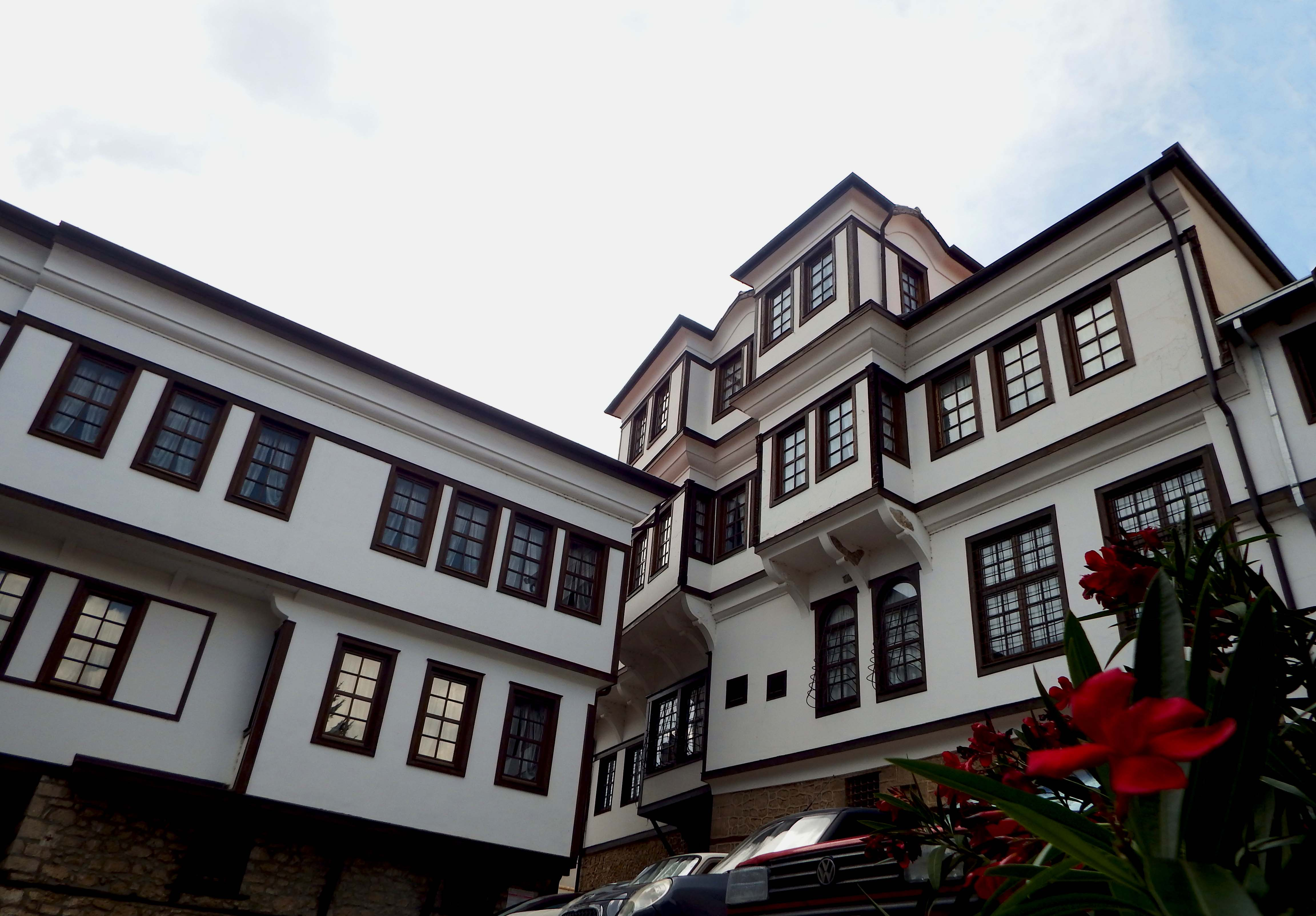 The Robevi family house and Urania house are the famous and historic architectural heritage buildings in Ohrid